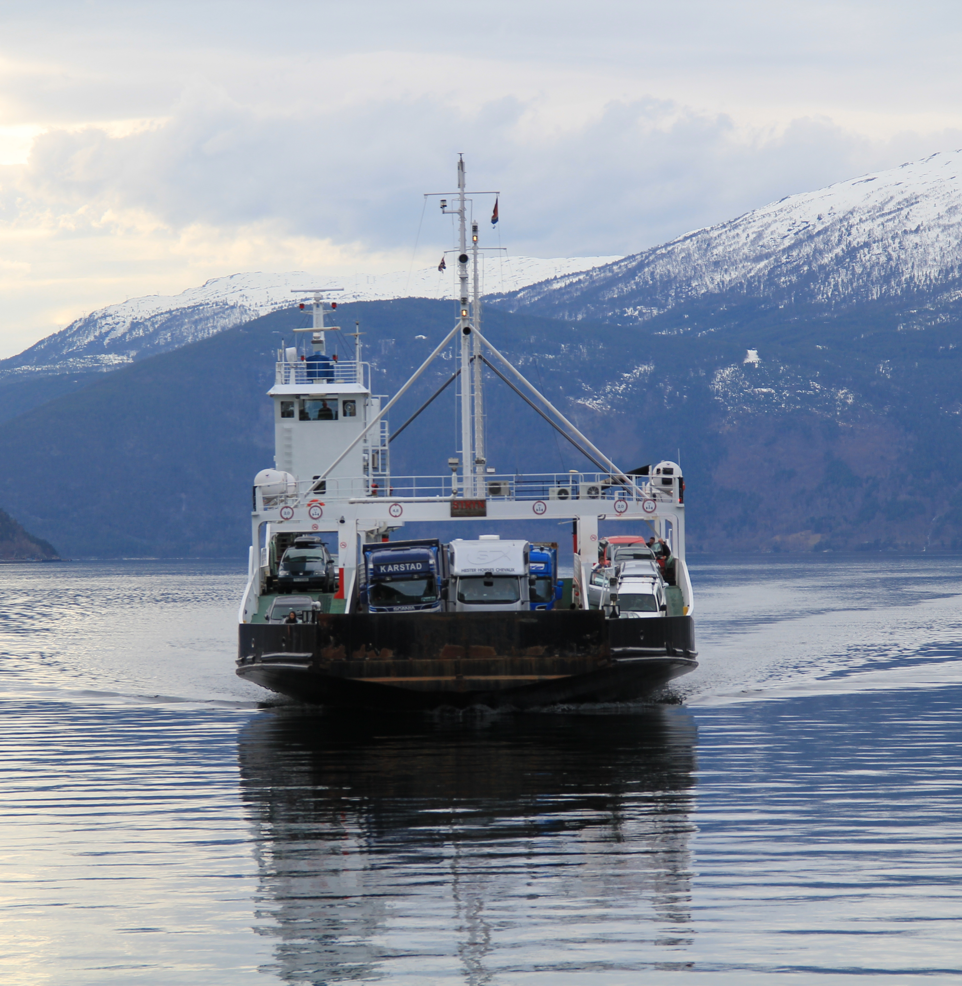 The ferry MF Stryn at Manheller-Fodnes, Norway.